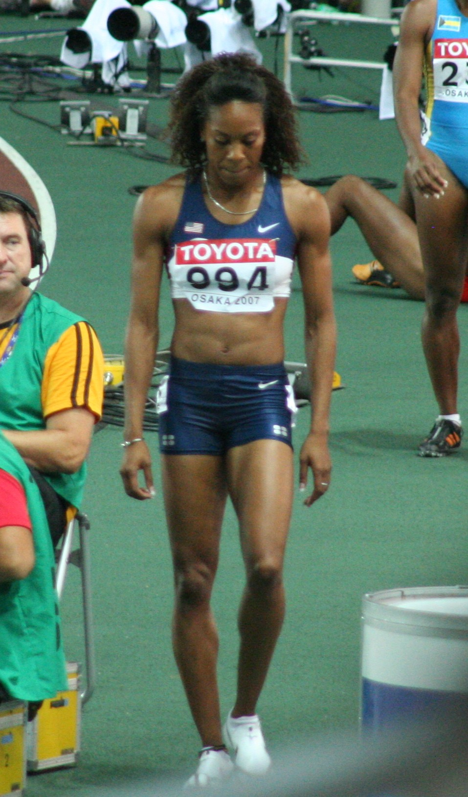 World Athletics Championships 2007 in Osaka - 200 metres runner Sanya Richards after the semifinal